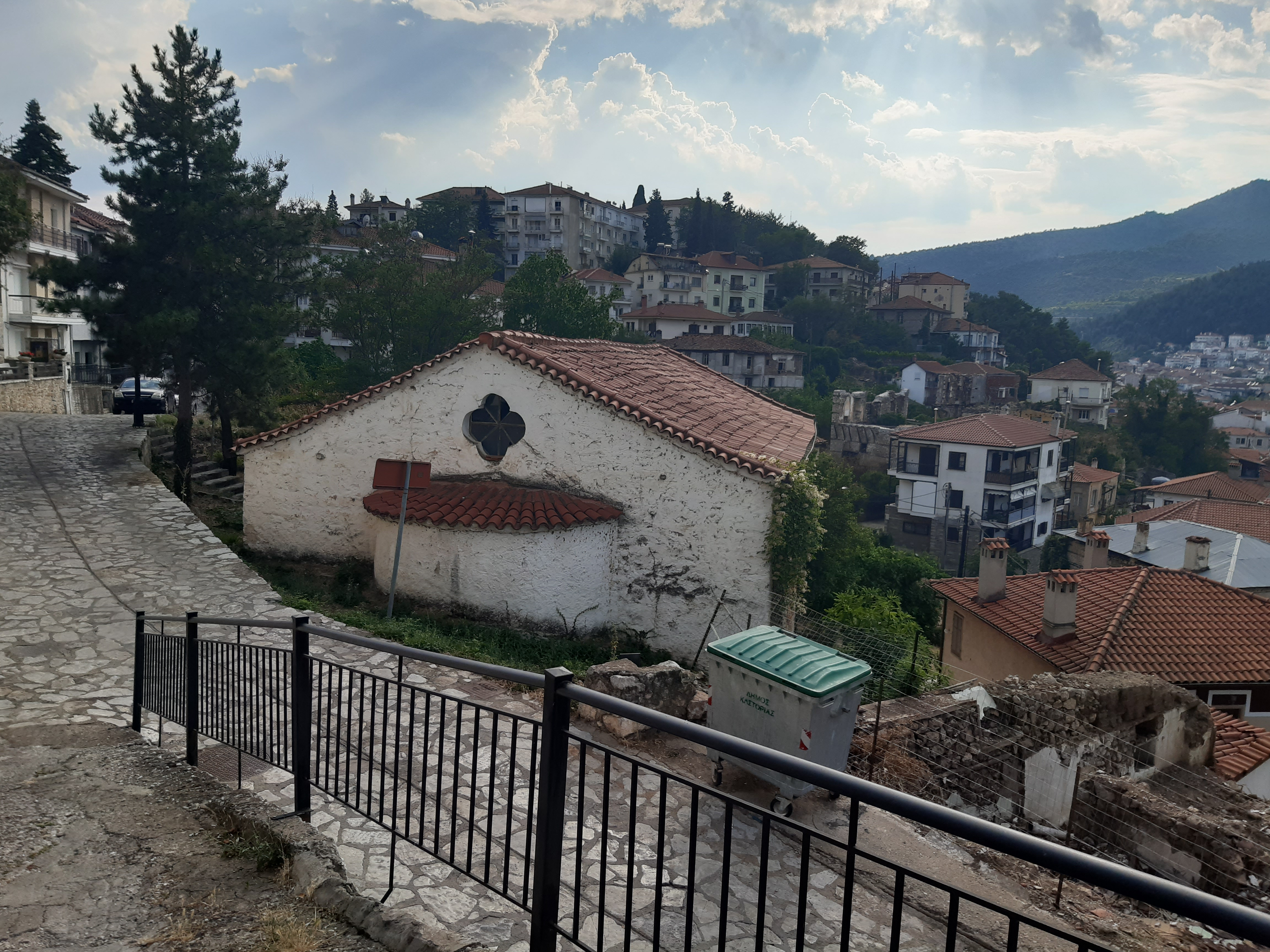 Sts. Theodore Tyron & Theodore Stratelates, Kastoria